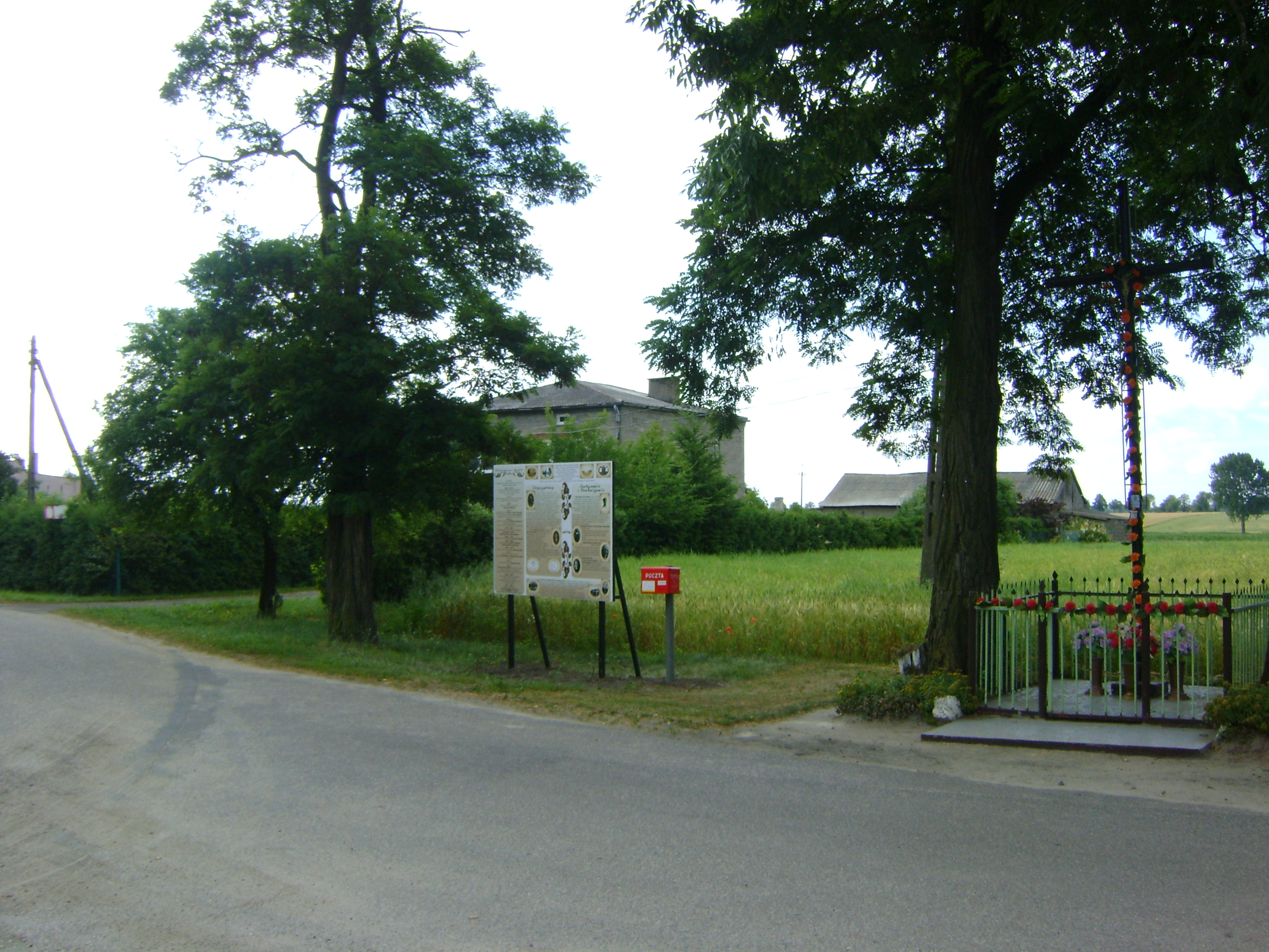 Belno community Gostynin - crossing the road in the center of